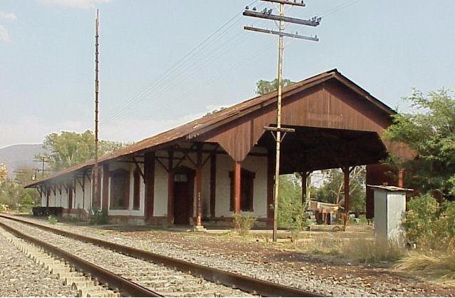 Railroad Station of Atequiza, Mexico